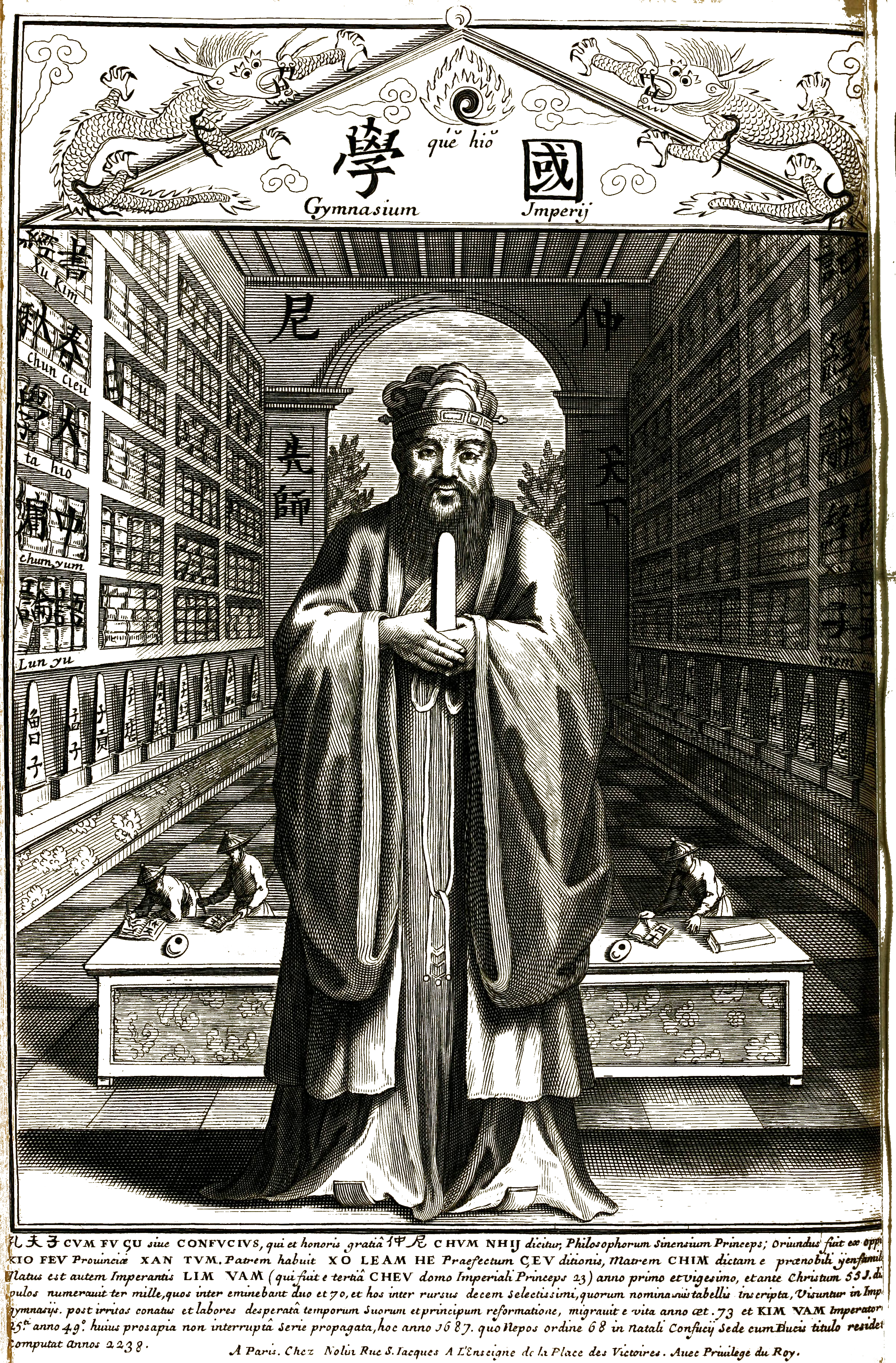 The portrait of Confucius from Confucius, Philosopher of the Chinese.